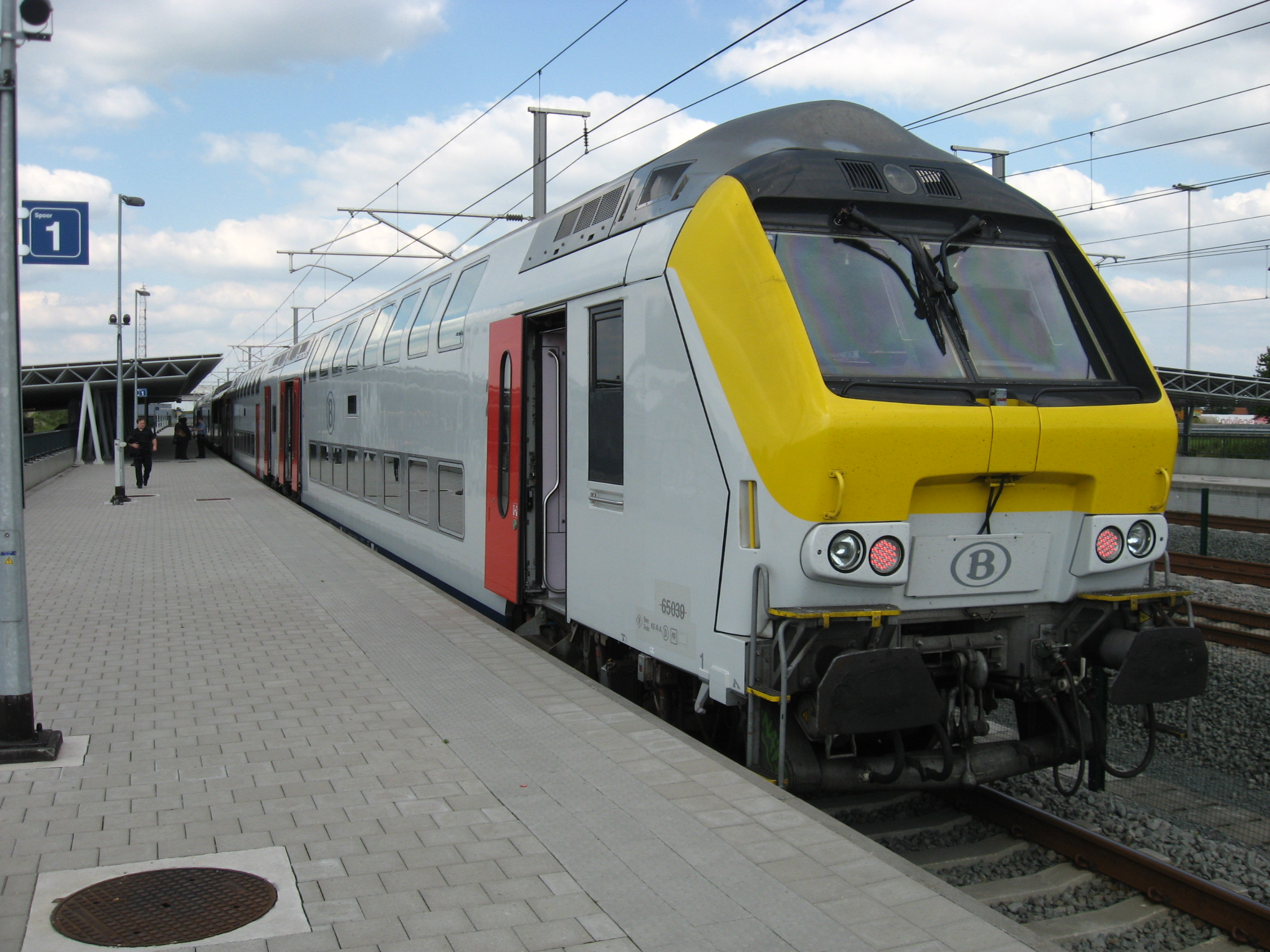 Shuttle service Antwerp - Luchtbal - Noorderkempen stopping at the HSL station. There is a M6 driving coach at each end and a locomotive in the middle.